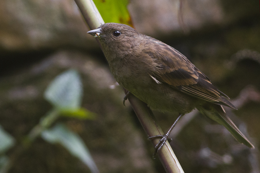 The species Dark-breasted Rosefinch had been photographed from Khangchendzonga National park in West Sikkim, India on 30.03.2016.